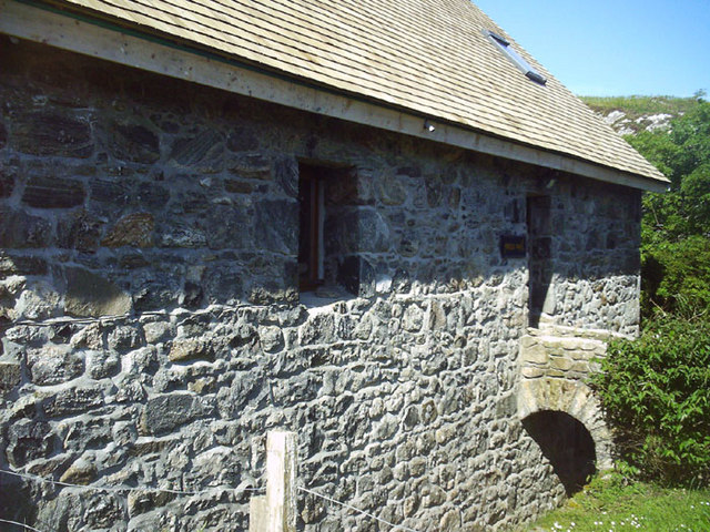 Acha Mill., Acha on the Hebridean island of Coll (note: not a mill for the grain known as acha. this is an unused watermill)